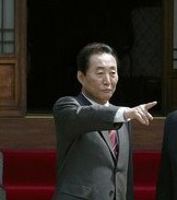 Further crop of Image-GohKun-cropped.jpg